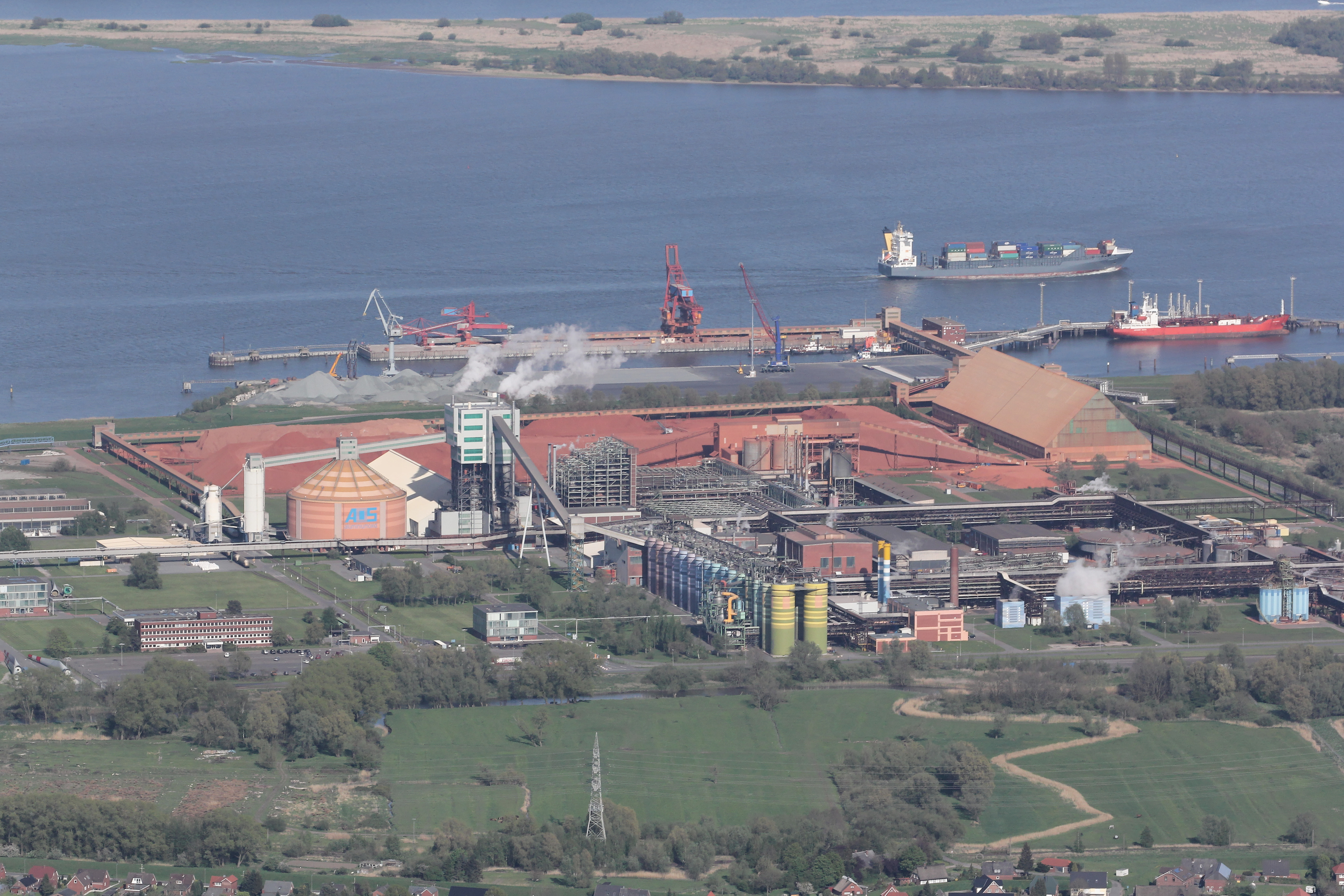 A aerial photograph of a unidentified location.